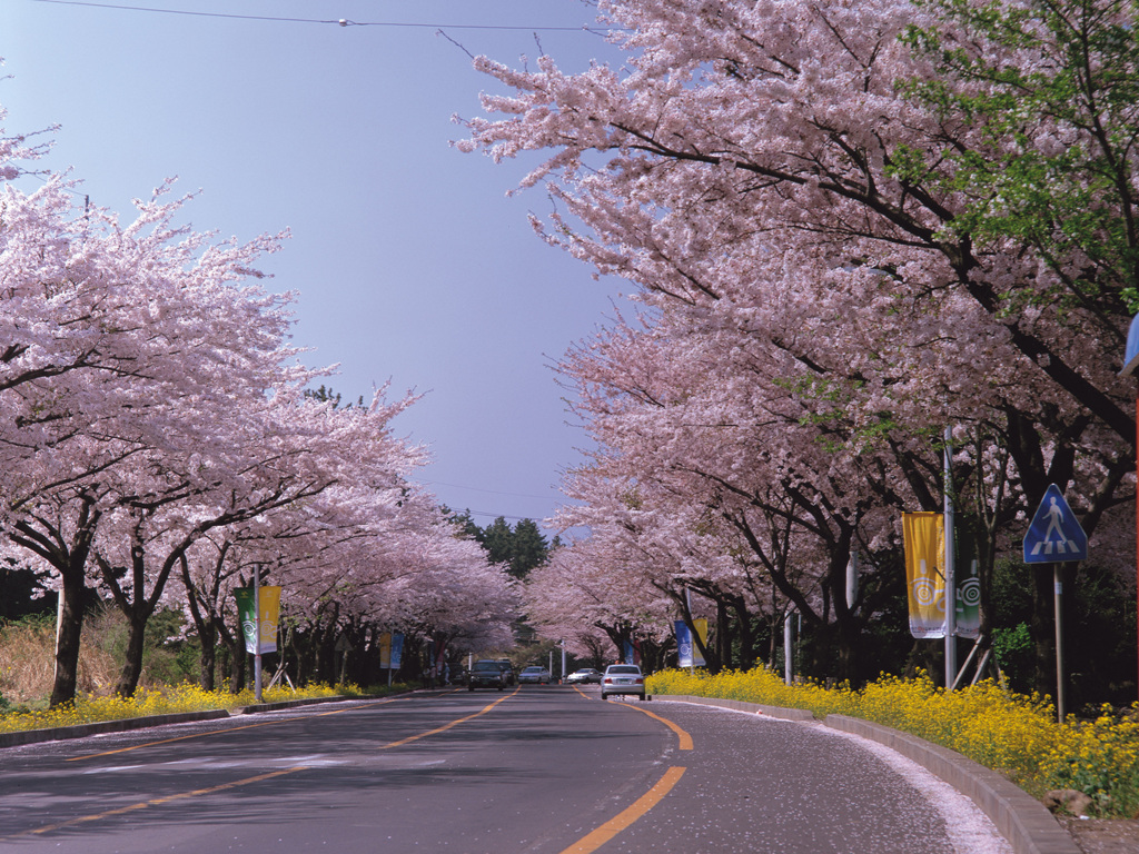 Period: Mar. 26 - 28, 2010 (3 days) Place: Jeju Citizen Welfare Town area, Jeju-do a wide array of events will be held: street performances, parades, fusion Korean classical music, youth festivals, and the “cherry” on top, fireworks!